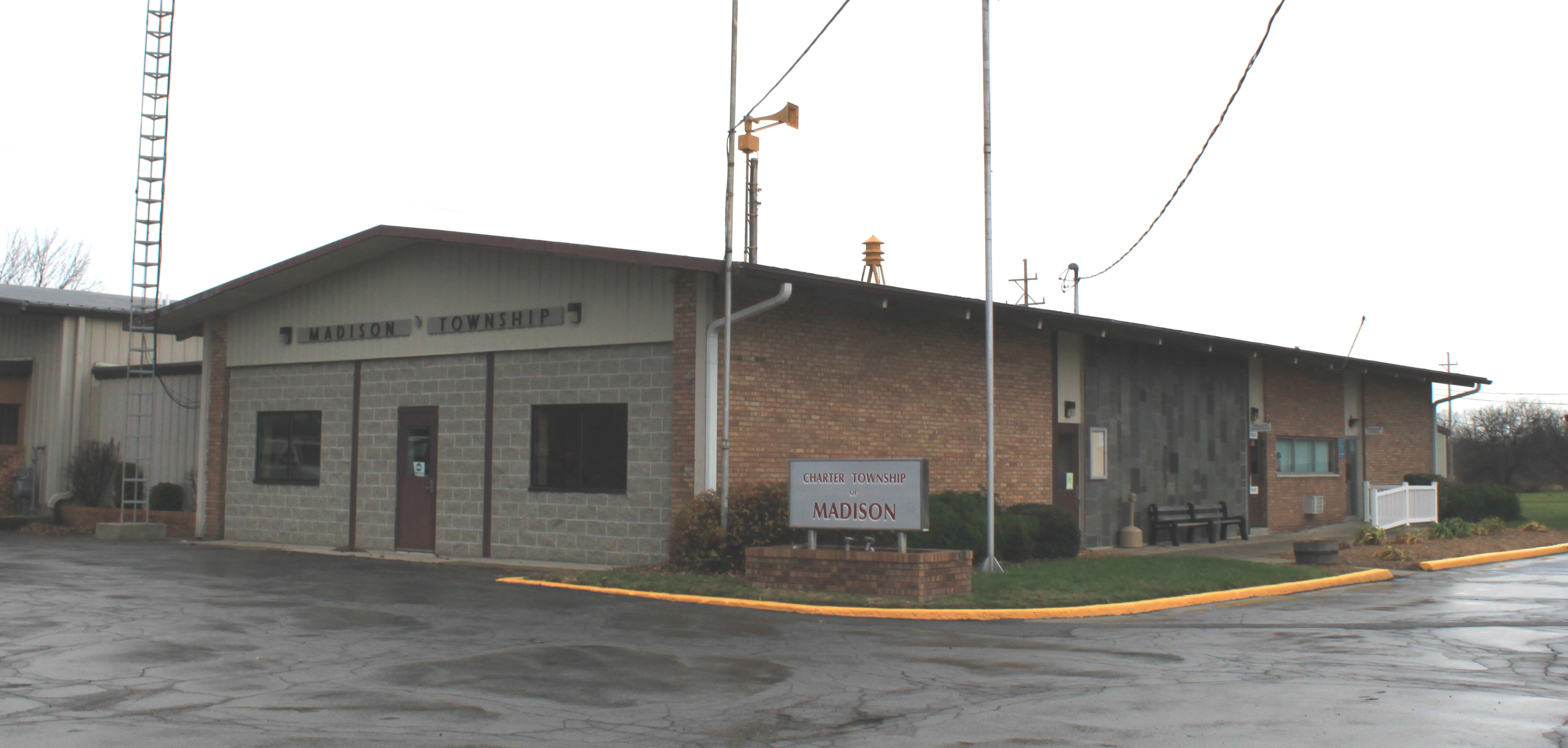 Madison Township Hall, 4008 South Adrian Highway, Madison Township, Michigan